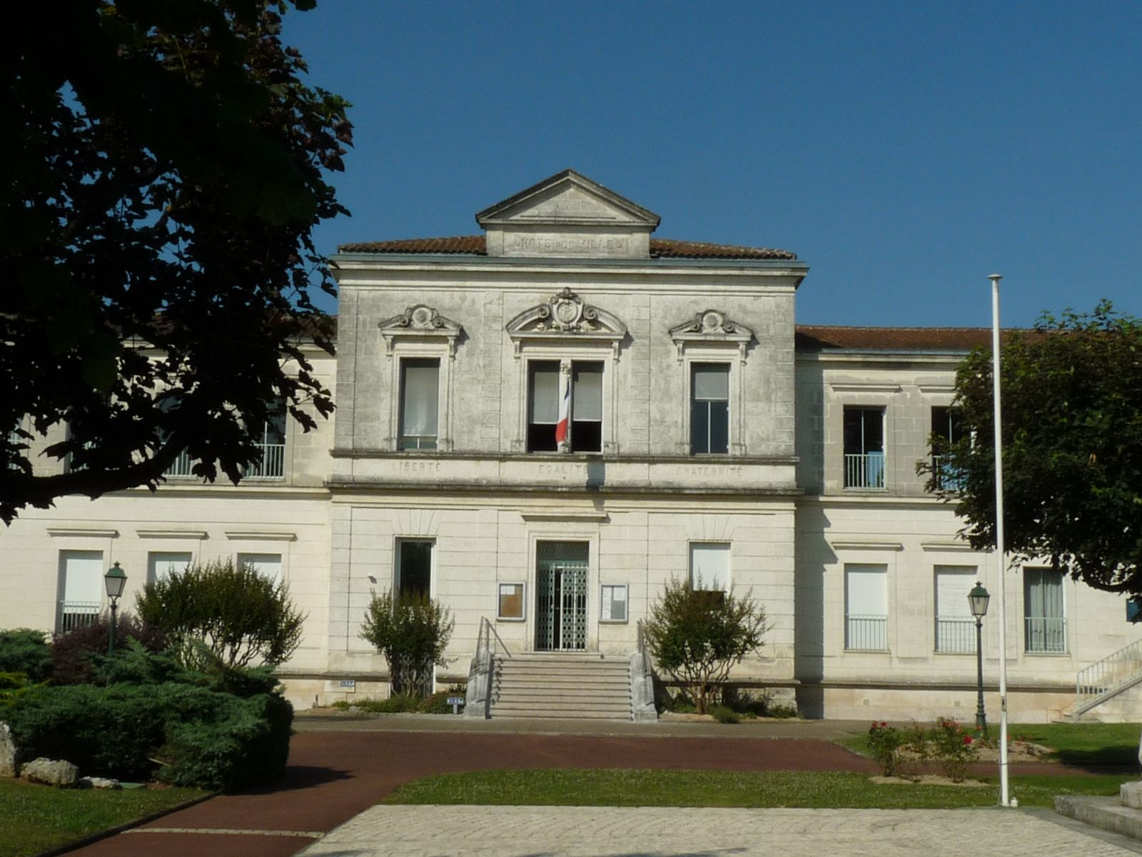 Town hall of Ruelle, Charente, SW France